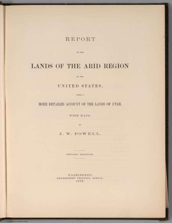 Title Page of John Wesley Powell's 1878 report (second edition, 1879).